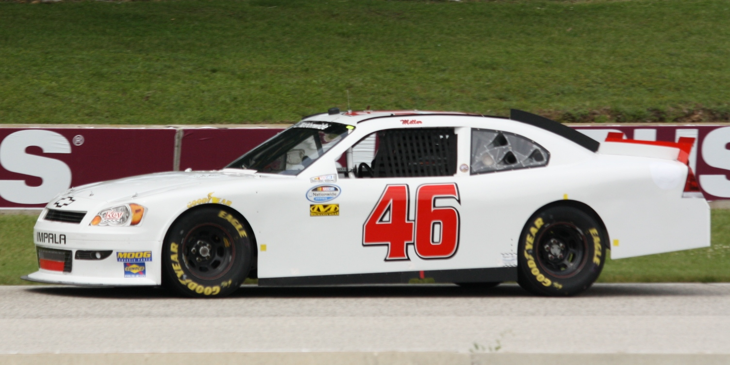 NASCAR driver Chase Miller racing his stock car at Road America at the 2011 Bucyros 200 Nationwide Series race.